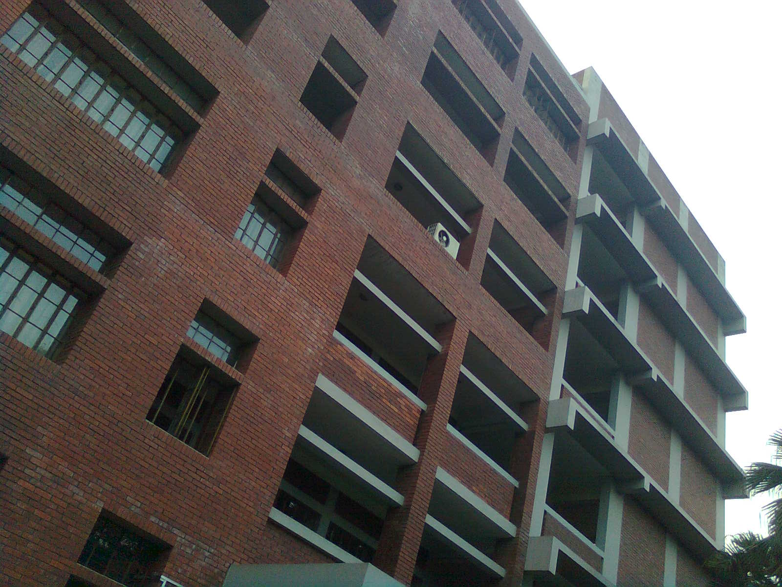 academic block